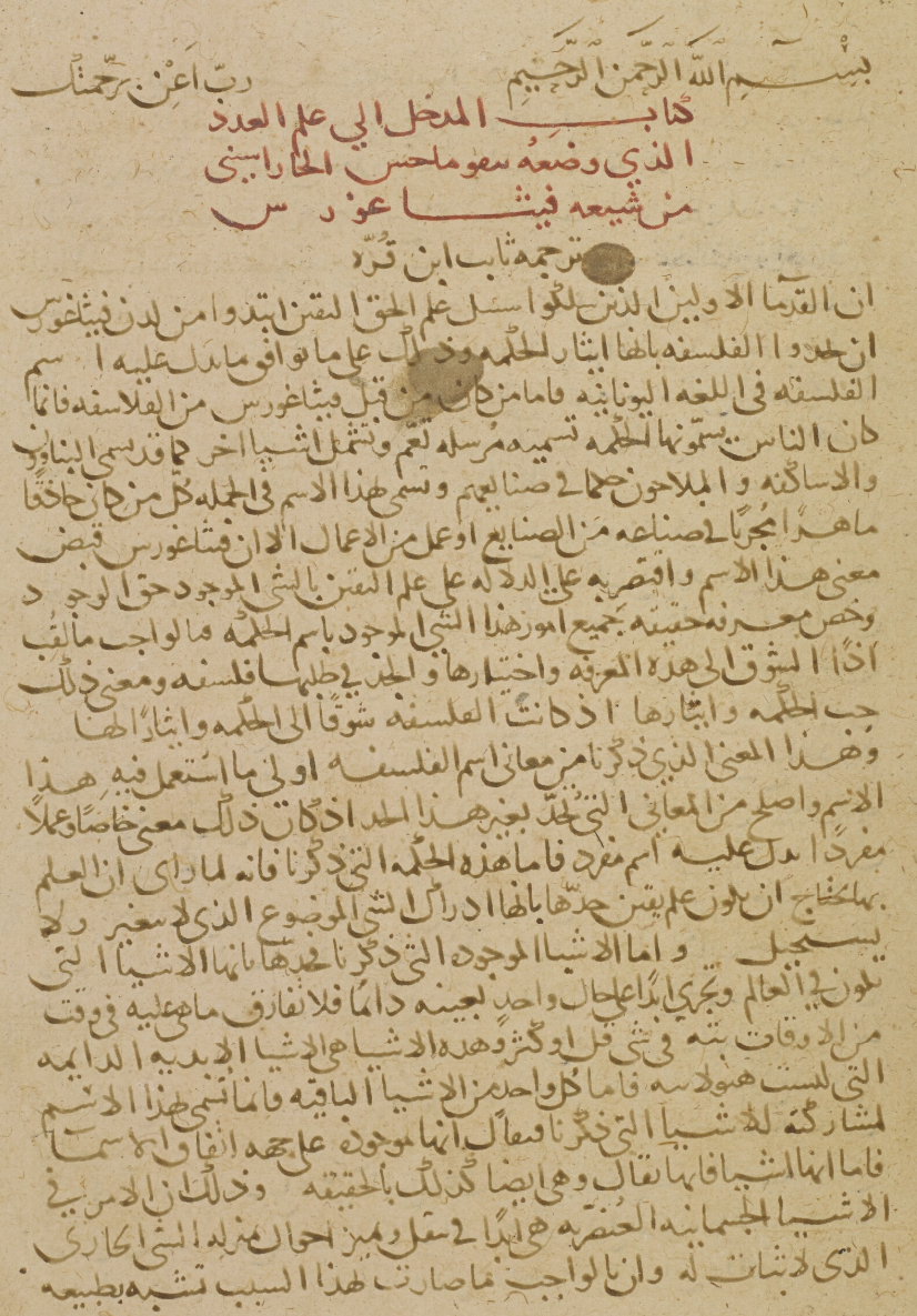 al-Madkhal ilá ‘ilm al-‘adad المدخل إلى علم العدد Nicomachus of Gerasa نيقوماخس الجراسيني [122r] (1/85)